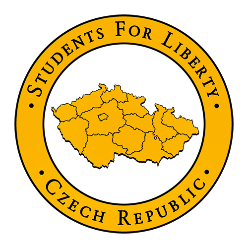 Logo of czech student organization Students for Liberty CZ